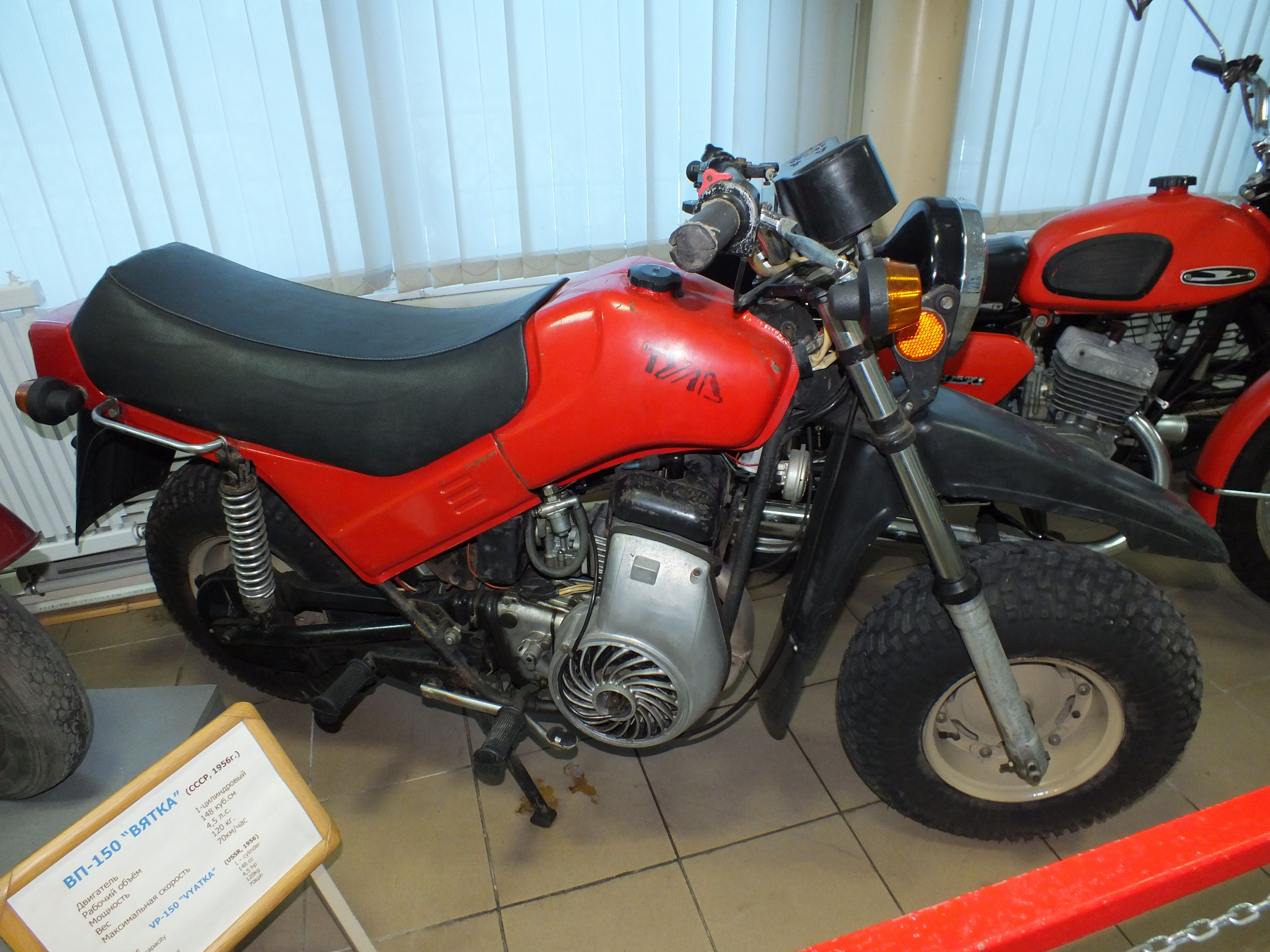 TMZ scooters